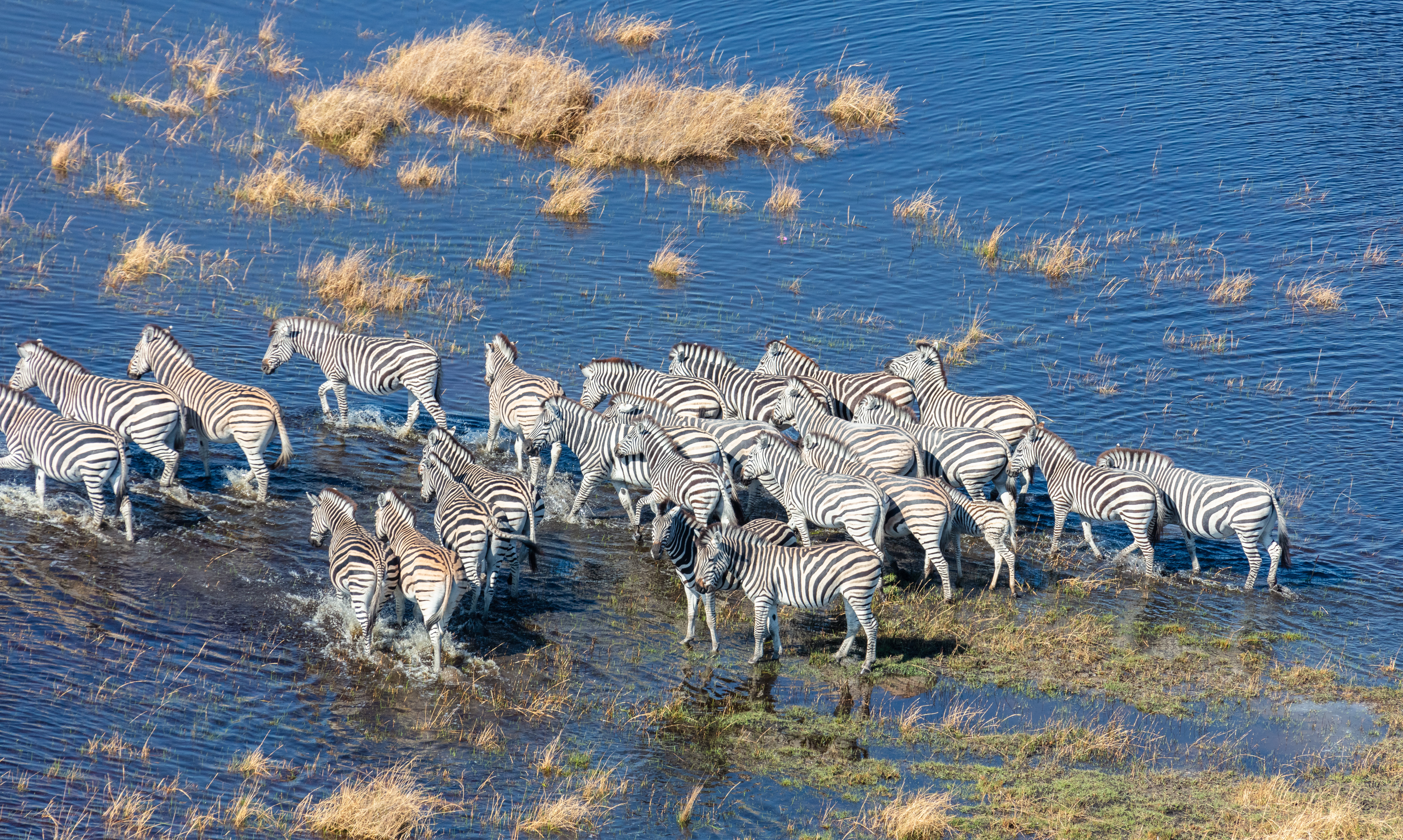 Burchell's zebras (Equus quagga burchellii), Okavango Delta, Botswana